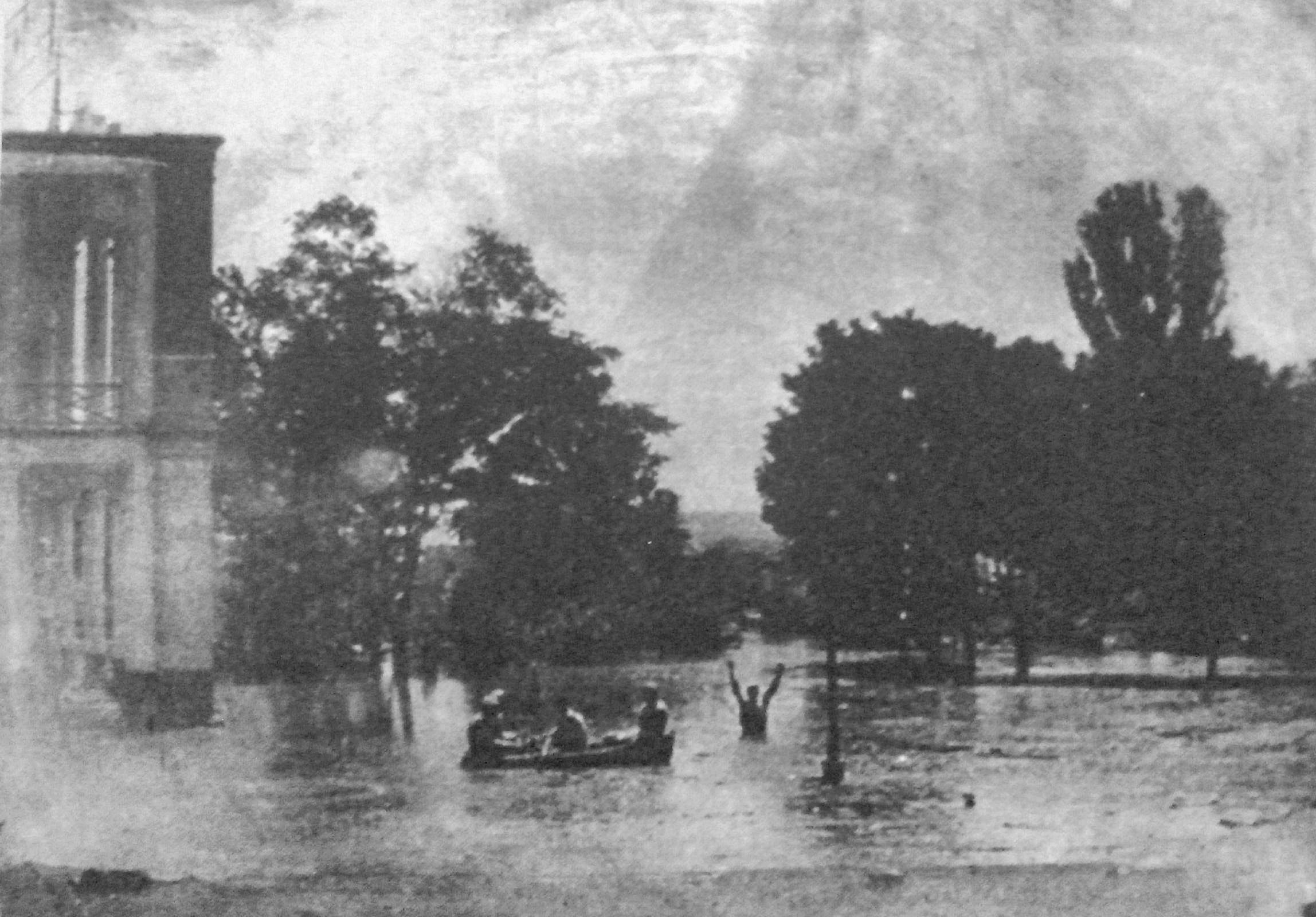 Tabriz Flood, East Azerbaijan State Palace, 1934